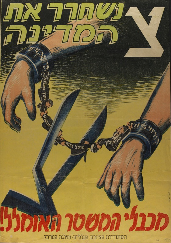 "General Zionists" 50s election poster